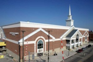 Photo of The First Baptist Church of Hammond.